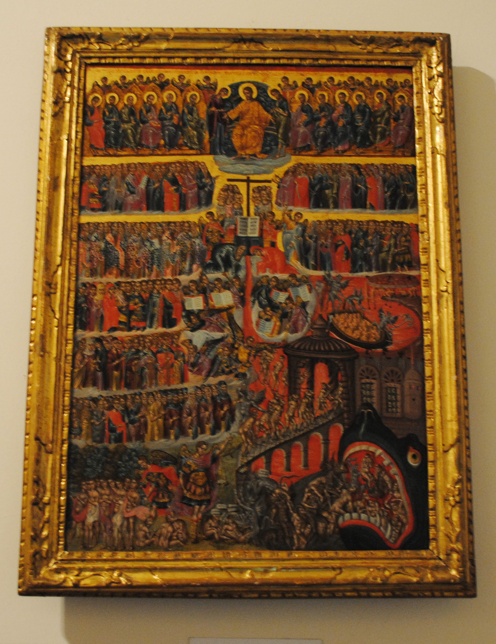 Ikona u Riznici Patrijaršijskog dvora, Sremski Karlovci